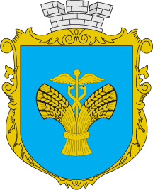 Coat of Arms of Вalta, Odessa Oblast, Ukraine